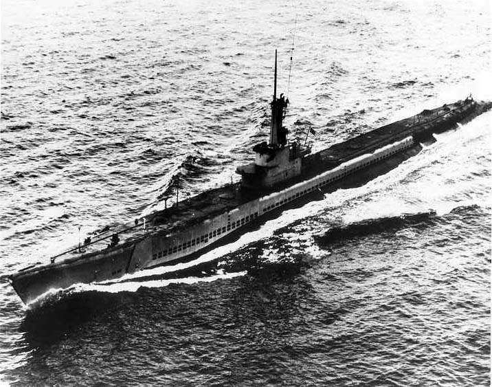 USS_Aspro; Port side view of the Aspro (SS-309) underway, date and location unknown. U.S. Navy photo courtesy of web site.